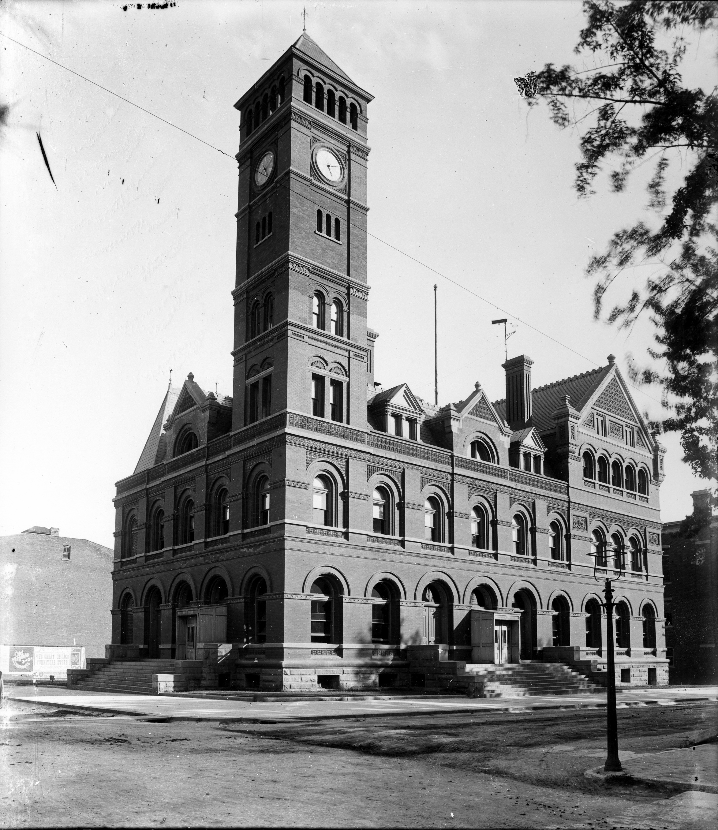 U.S. Court House and Post Office, Keokuk, Iowa (1900) Completed in 1890. Supervising Architects: Mifflin E. Bell and Will. A. Freret The U.S. District Court for the Southern District of Iowa met here until 1957; the U.S. Circuit Court for the Southern District of Iowa met here from 1896 until that court was abolished in 1912. Now the Lee County Courthouse.